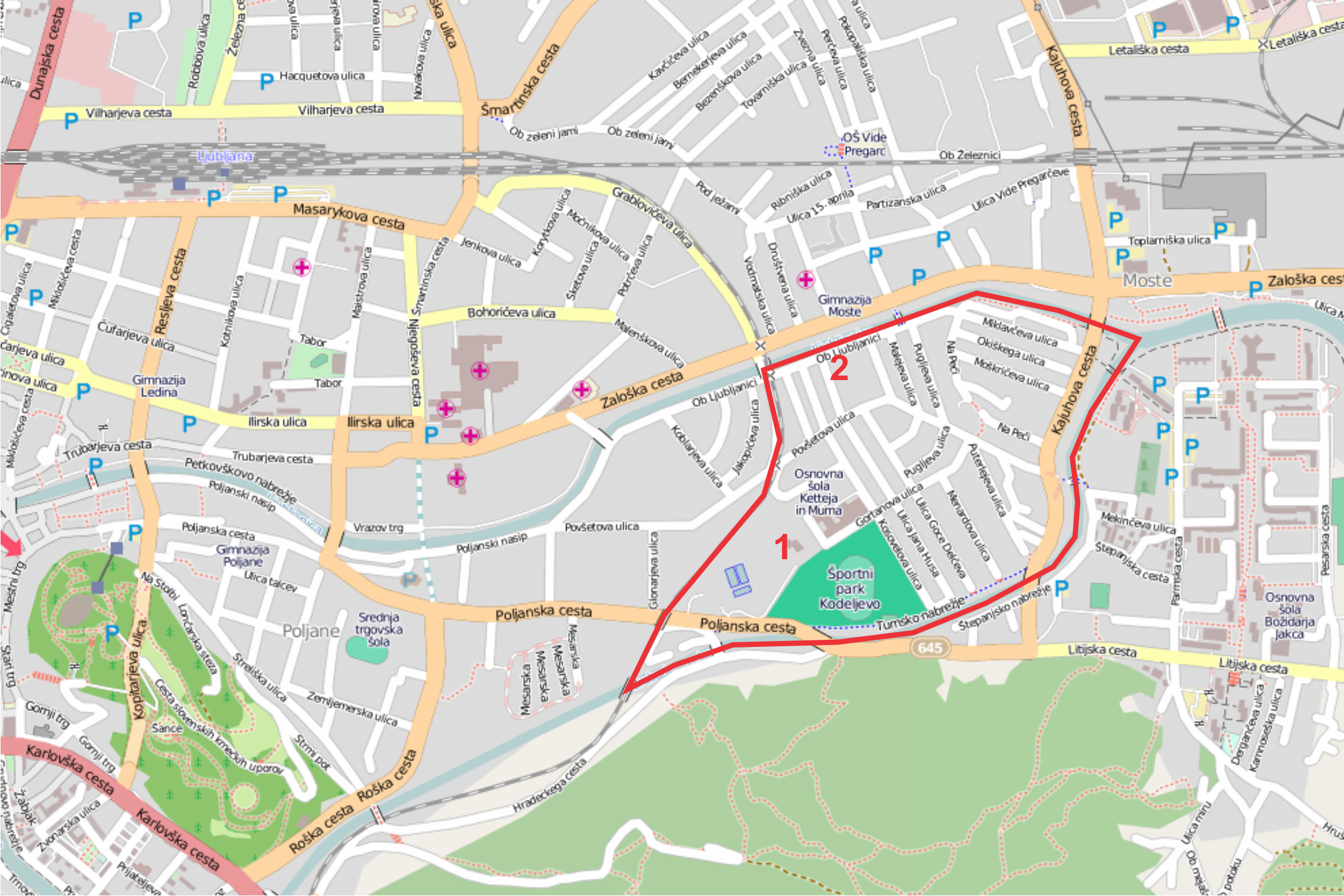 Part of Ljubljana - Kodeljevo (inside red border), 1 being Codelli's castle, 2 being Kodeljevo church location